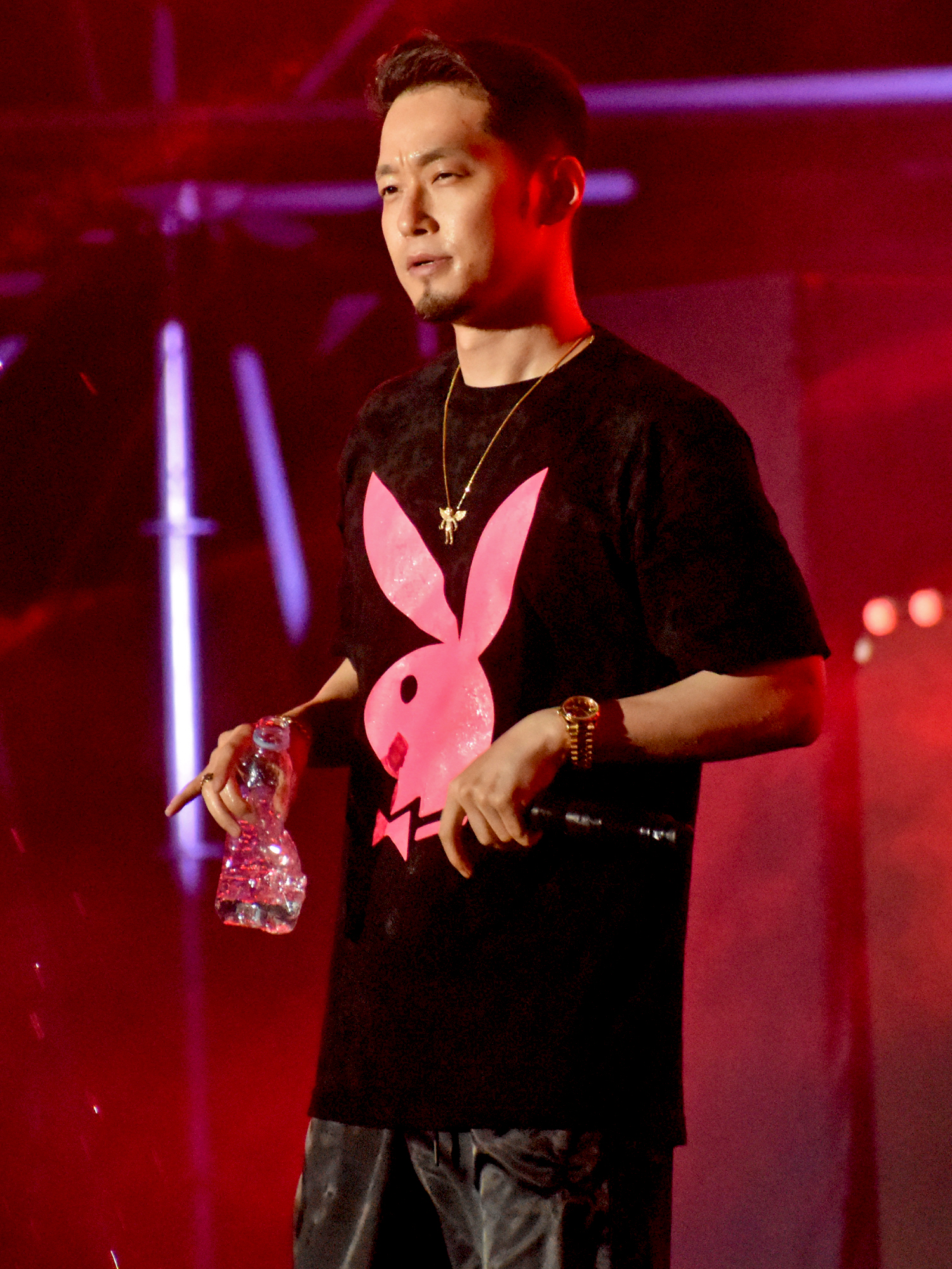 The Quiett at the 23rd Busan Sea Festival in Haeundae on August 1, 2018.